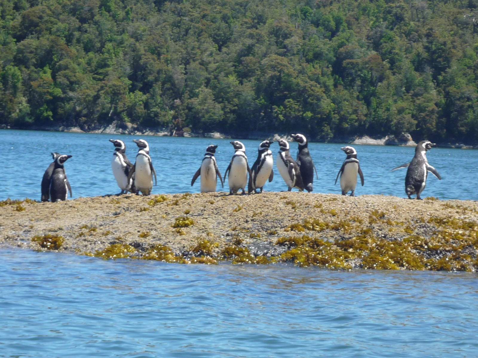 Magellanic Penguins at TicToc Bay, Juan Yates anchorage. They made quite a racket, which at first we were not sure where it came from.